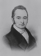 Thomas Clayton